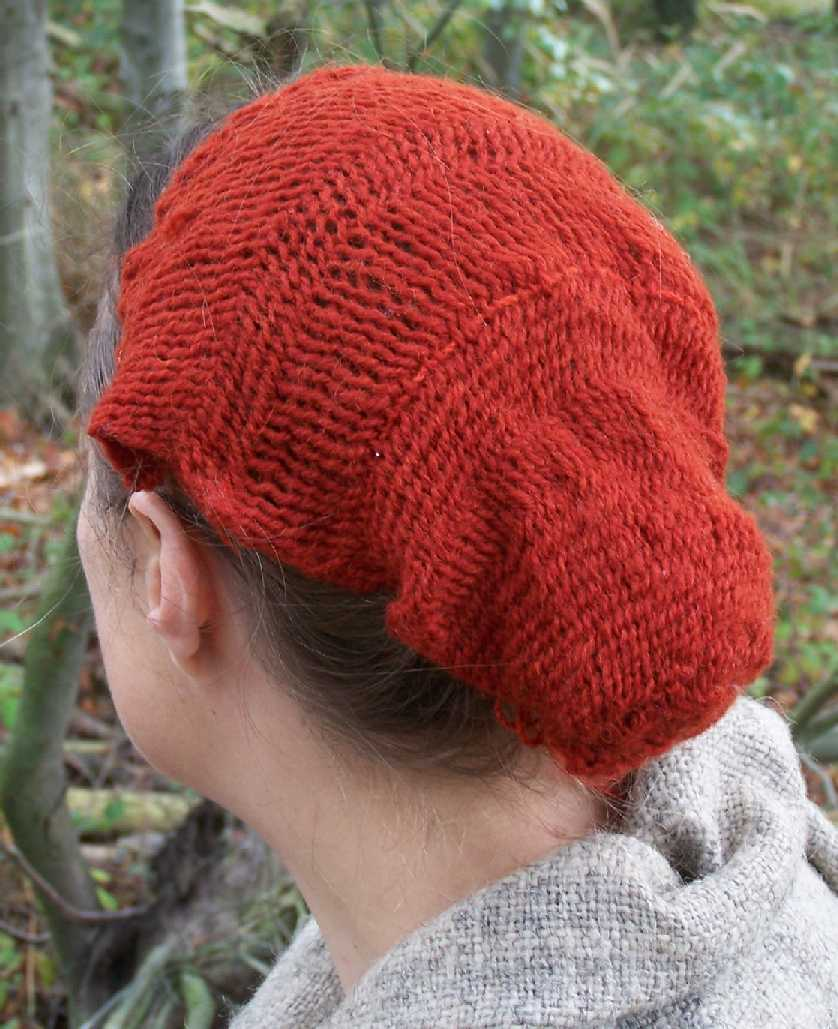 reconstruction of the hairnet of iron age bog body Arden Woman from Denmark. Done by Chris Wenzel.